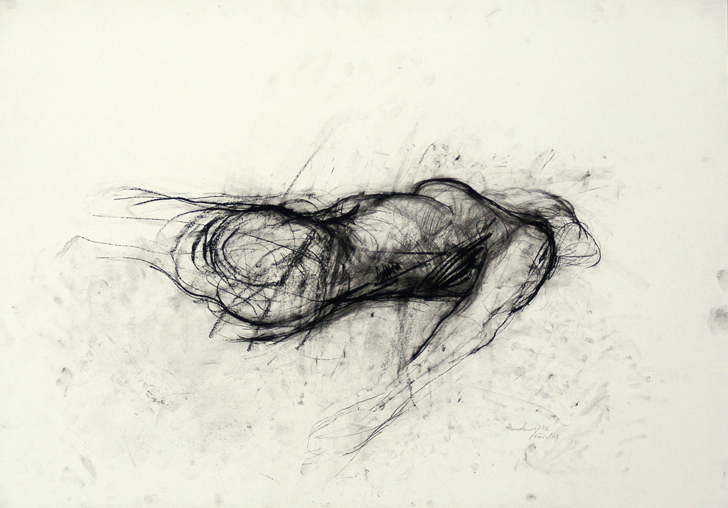 female torso, horizontal, 2006, drawing with black chalk and carbon, 70 x 100 cm